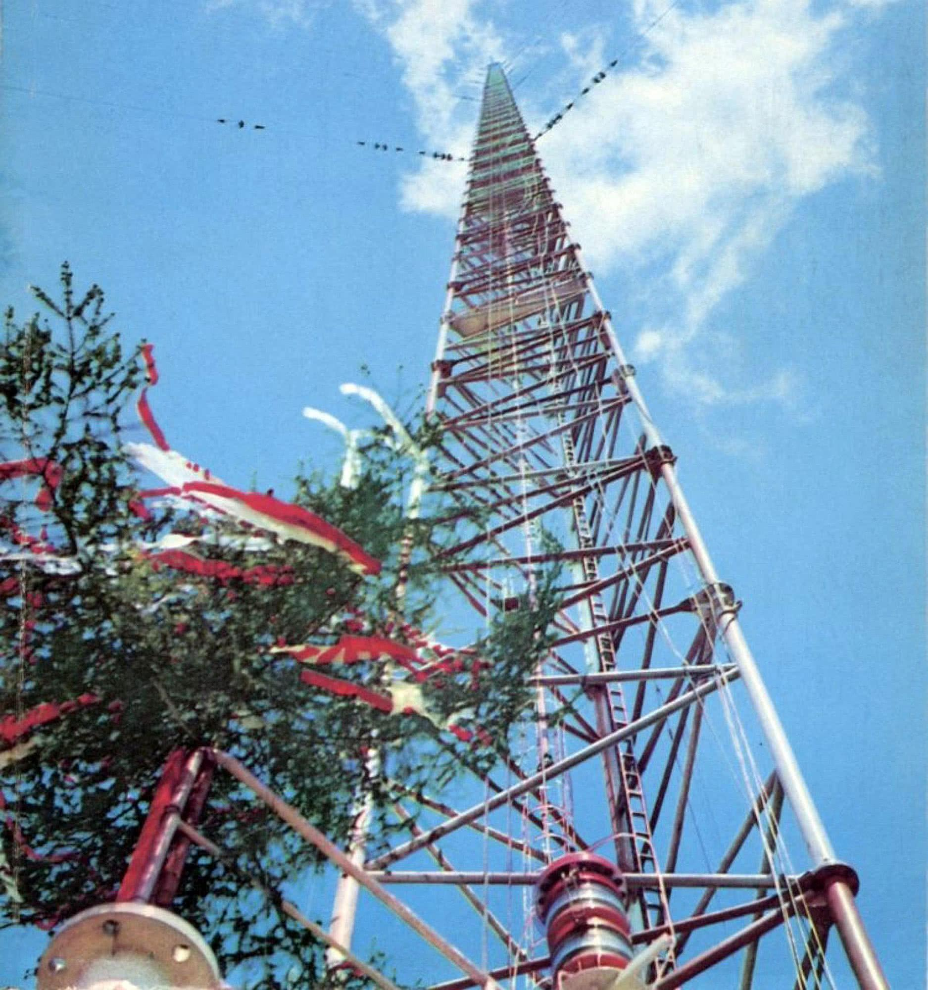 The radio mast in Konstantynów, Poland.